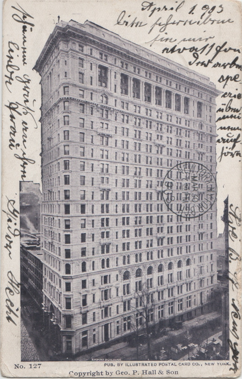 Old postal card of the "Empire Buildings", New York